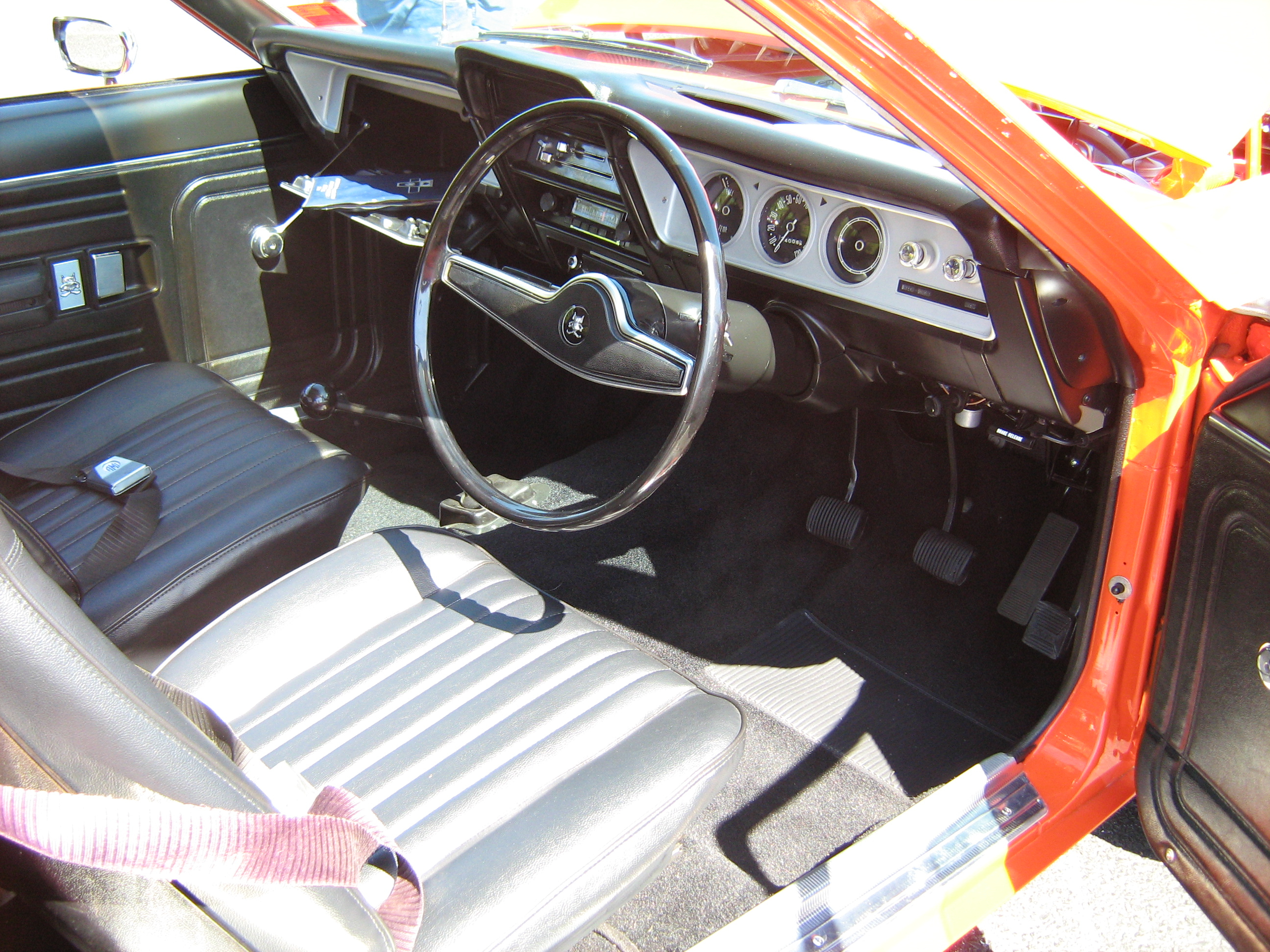 Driver's cockpit of a 1971 AMI Rambler Gremlin assembled in Australia by Australian Motor Industries (AMI). The automobile is from a complete knock down (CKD) kit from American Motors Corporation (AMC).